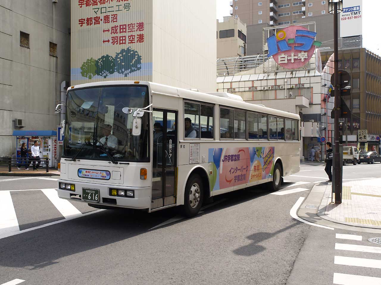 Fleet of Kanto Jidosha, shuttle bus for Interpark Utsunomiya-minami. Model: Nissan Diesel U-RA520RAN Body: FHI 7B License plate: TGU200 KA-616 Place: JR Utsunomiya station, Utsunomiya City, Tochigi Japan